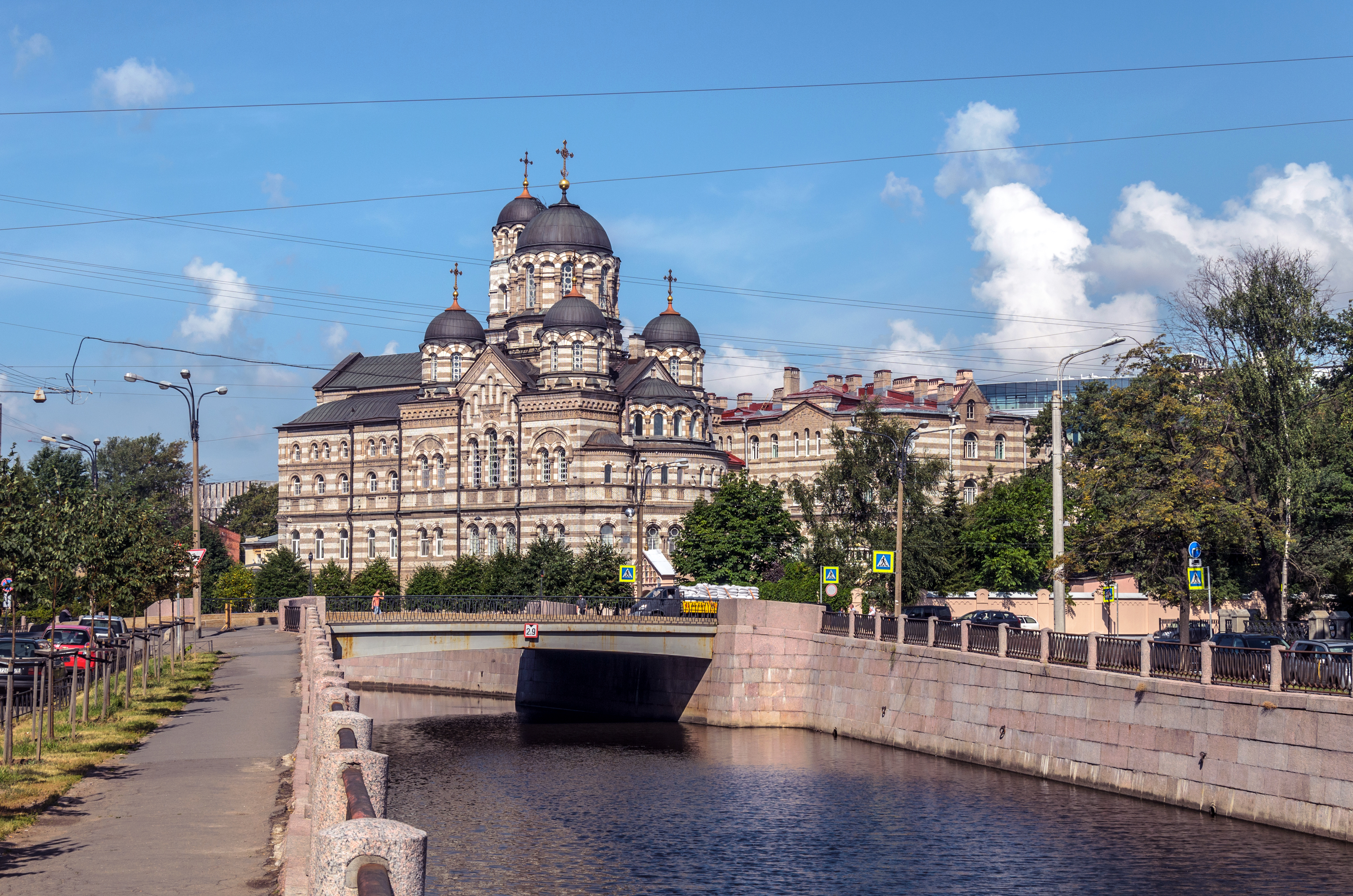 Ioannovsky Convent in Saint Petersburg